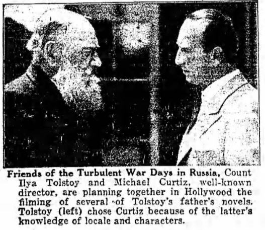 Newspaper photo of Ilya Tolstoy and director Michael Curtiz in 1927.